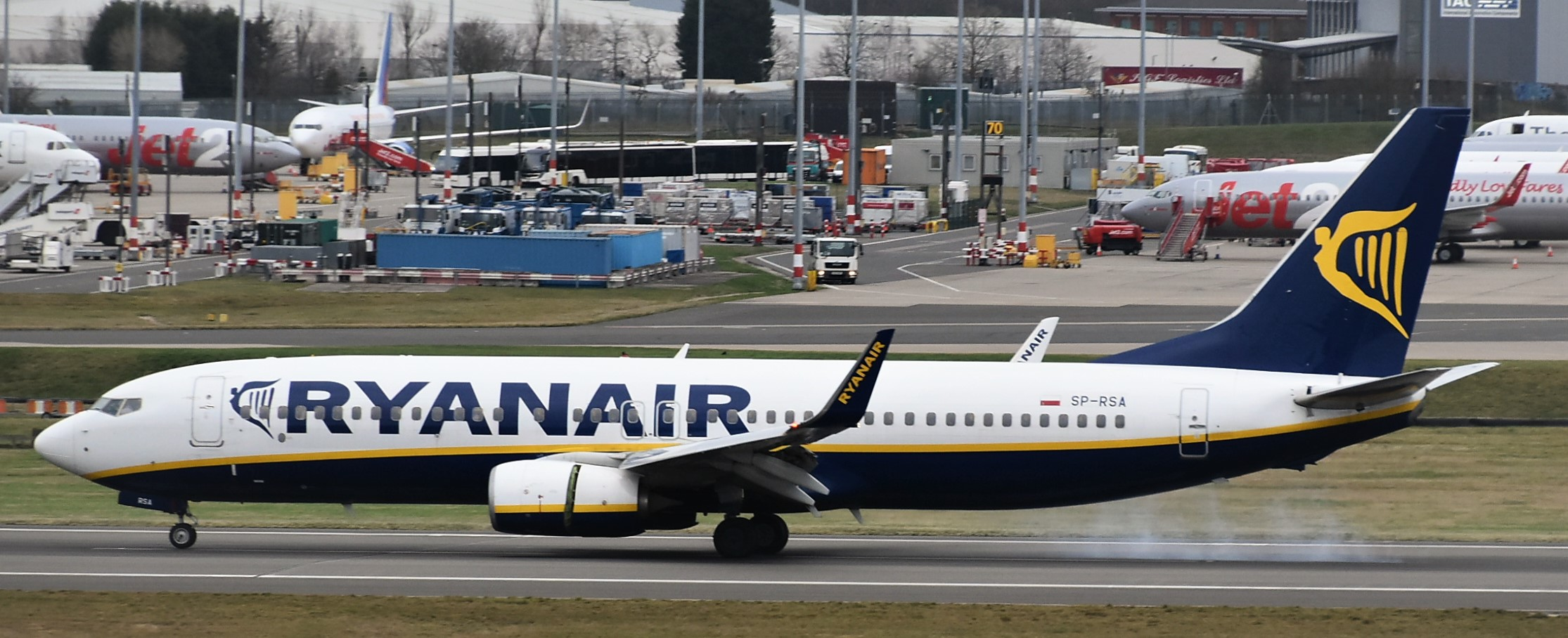 Boeing 737/8W of Ryanair Sun arriving rwy. 33 at Birmingham-BHX, 31/12/18.